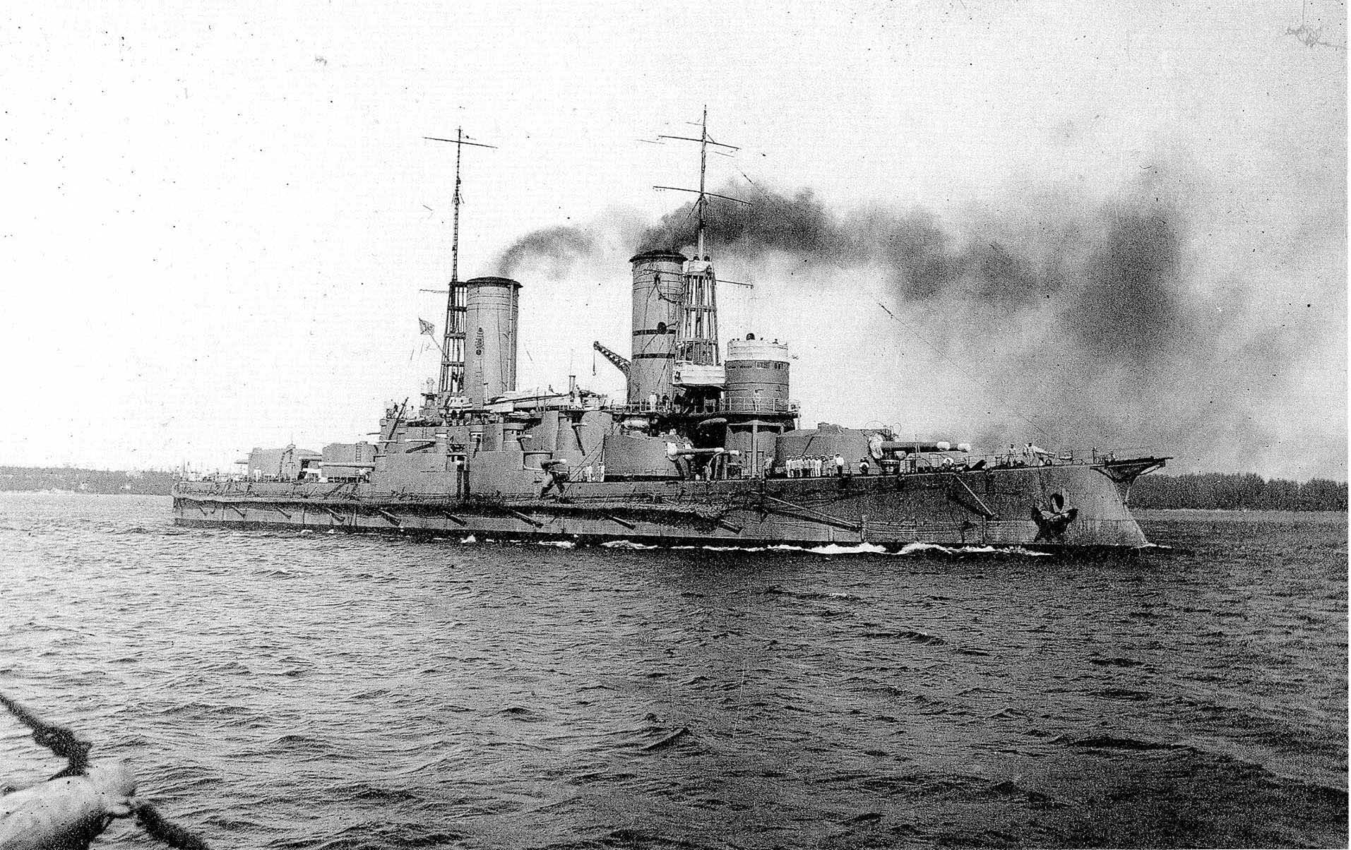 Imperial Russian battleship Imperator Pavel I, 1914-1916.